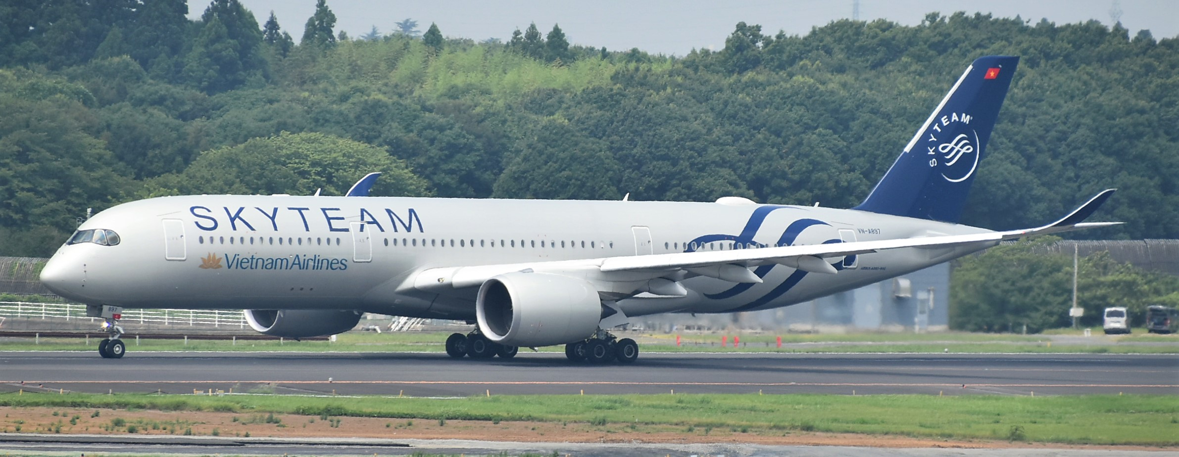 Vietnam Airlines Airbus A350-900 in SkyTeam livery departing Narita International Airport.